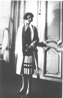 French writer Banin (Umm el Banu).